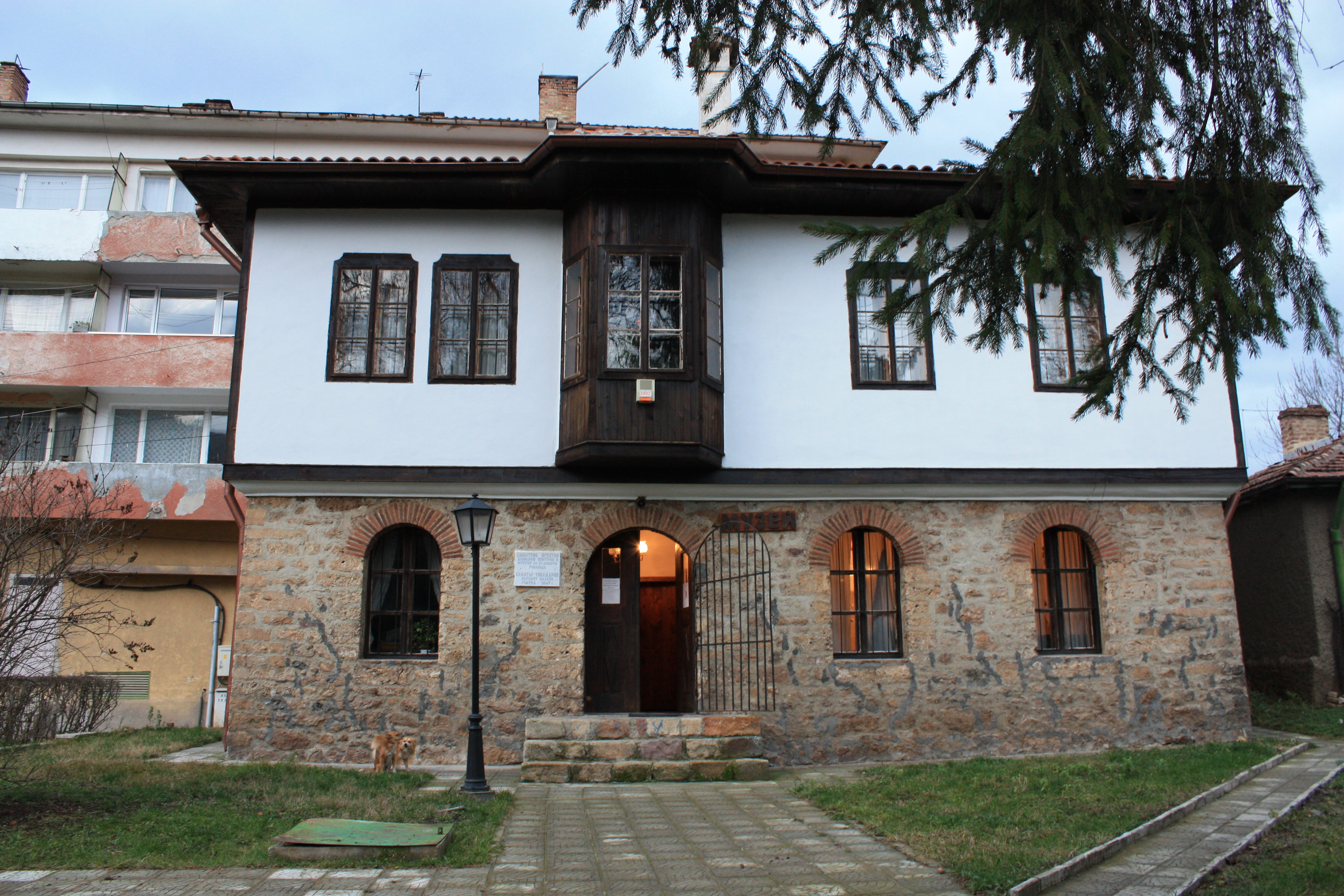 The 19 century school in Breznik Bulgaria